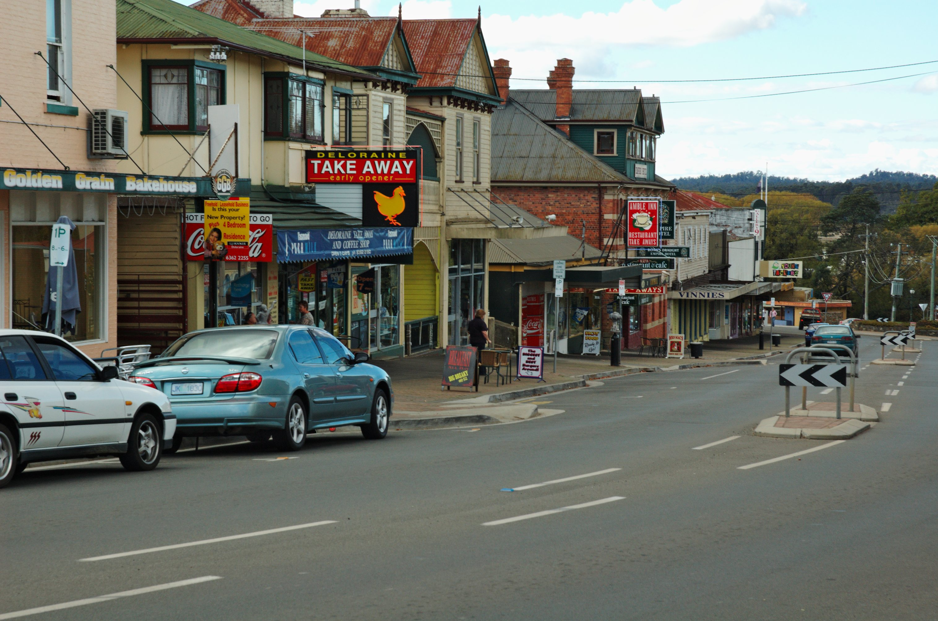 Shops in Emu Bay Road, Deloraine, Tasmania: Golden Grain Bakehouse, Deloraine Take Away. The take-away may have burned down in 2009.